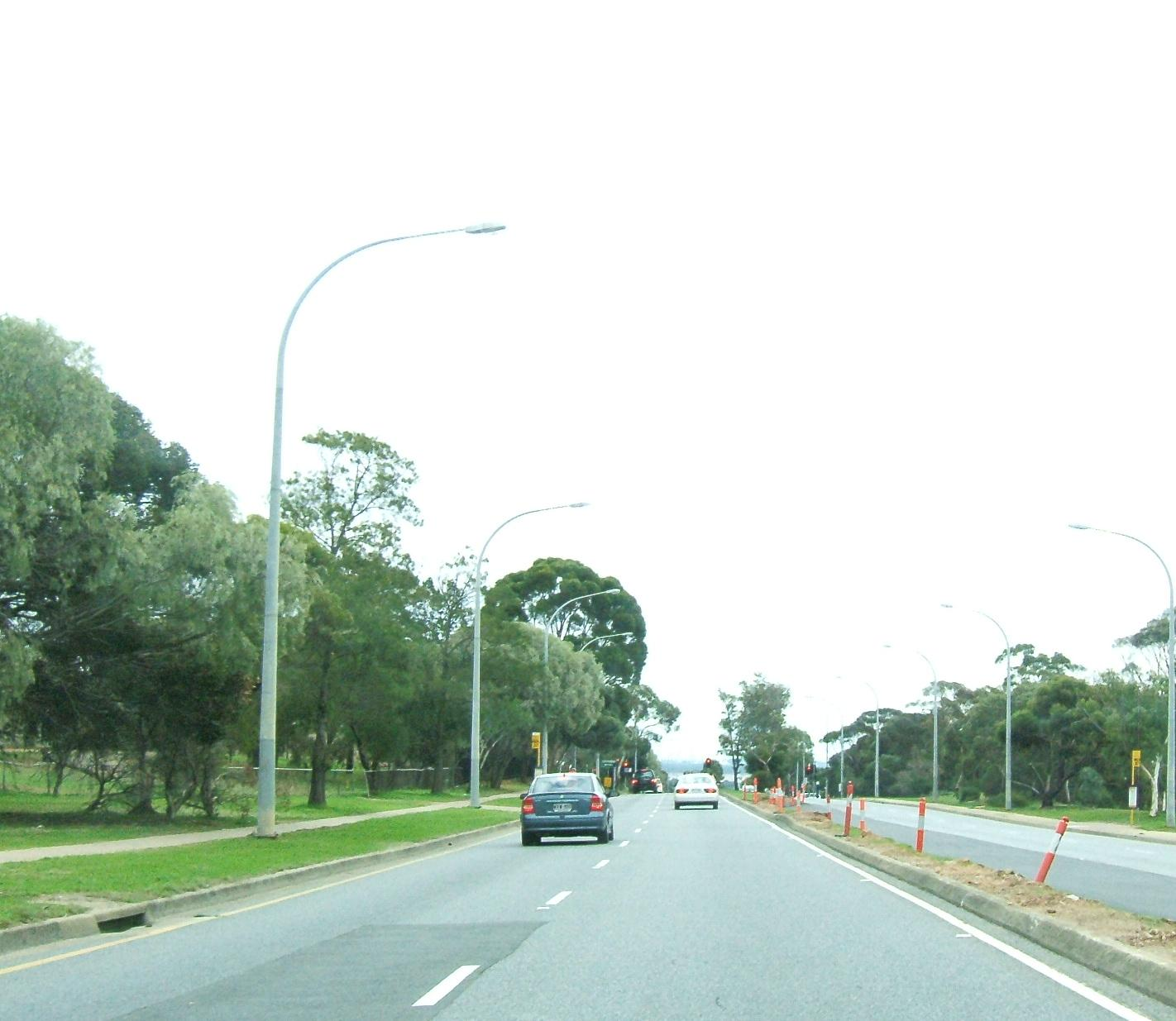 Ingle Farm, South Australia